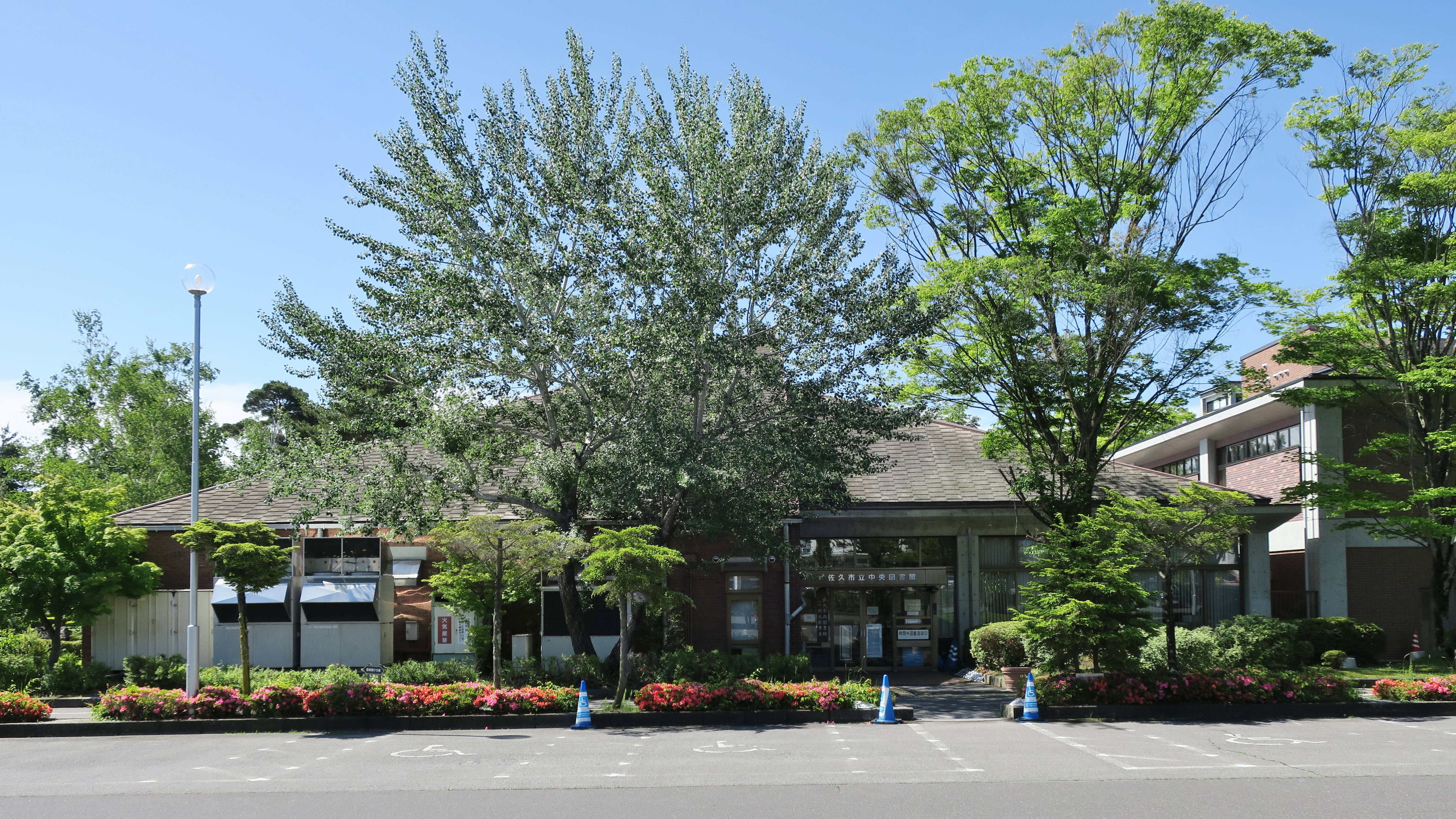 Saku Public Central Library (Saku, Nagano).